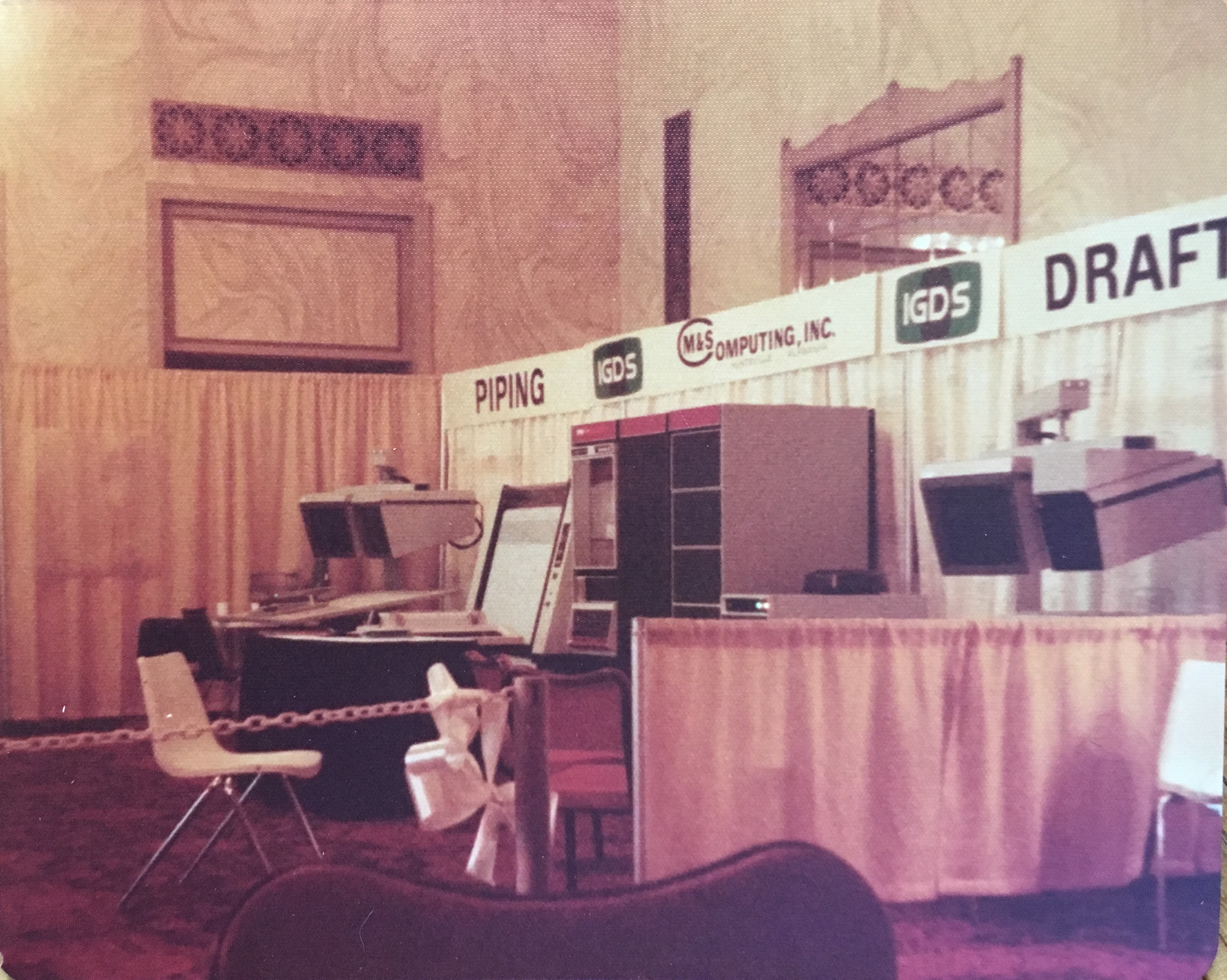 M&S Computing (now Intergraph) exhibit at a trade show in1978